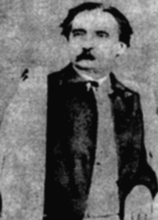 Photograph of the Wallachian poet and politician Ion Heliade Rădulescu.